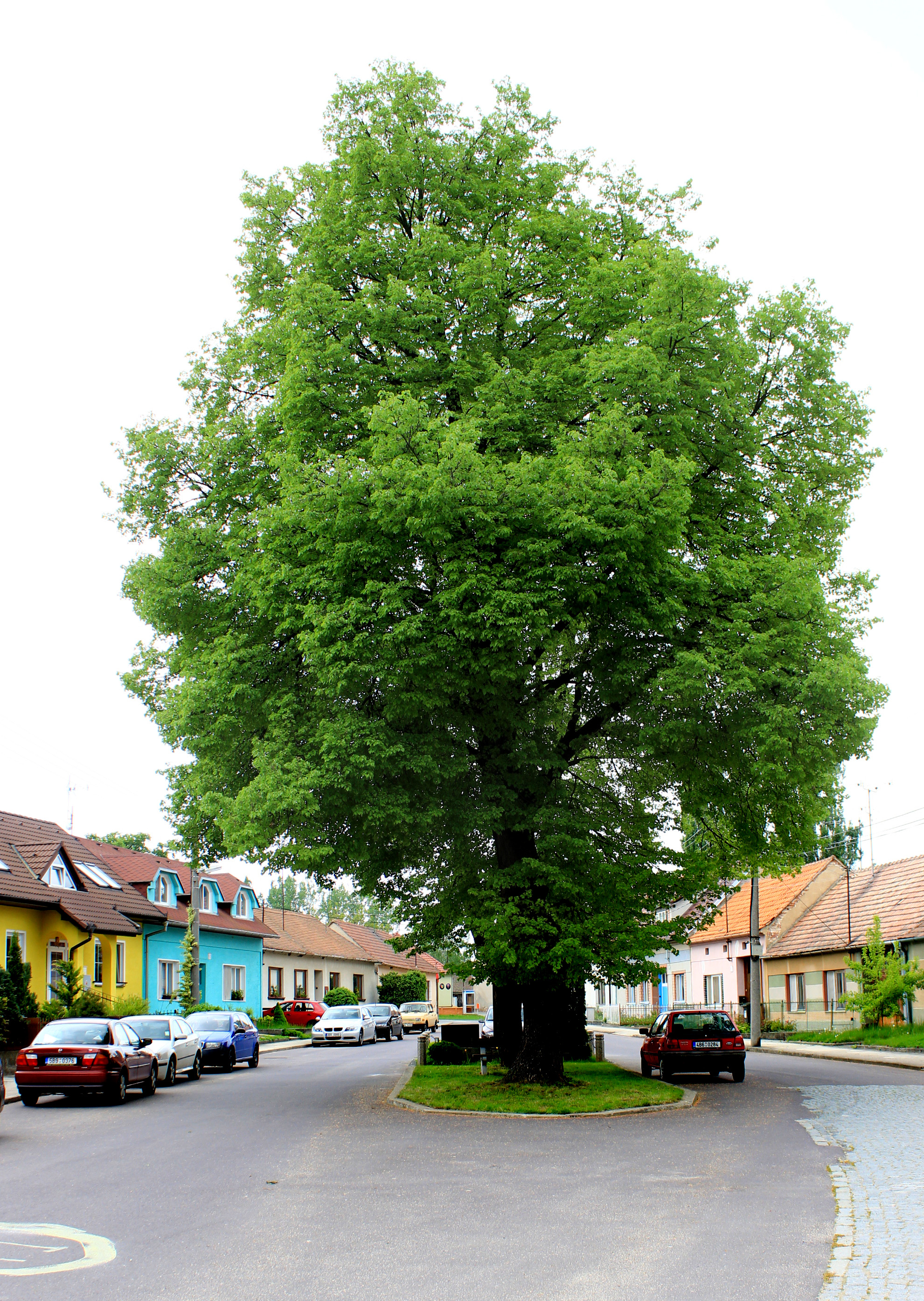 Small common in Dobřínsko, Czech Republic.